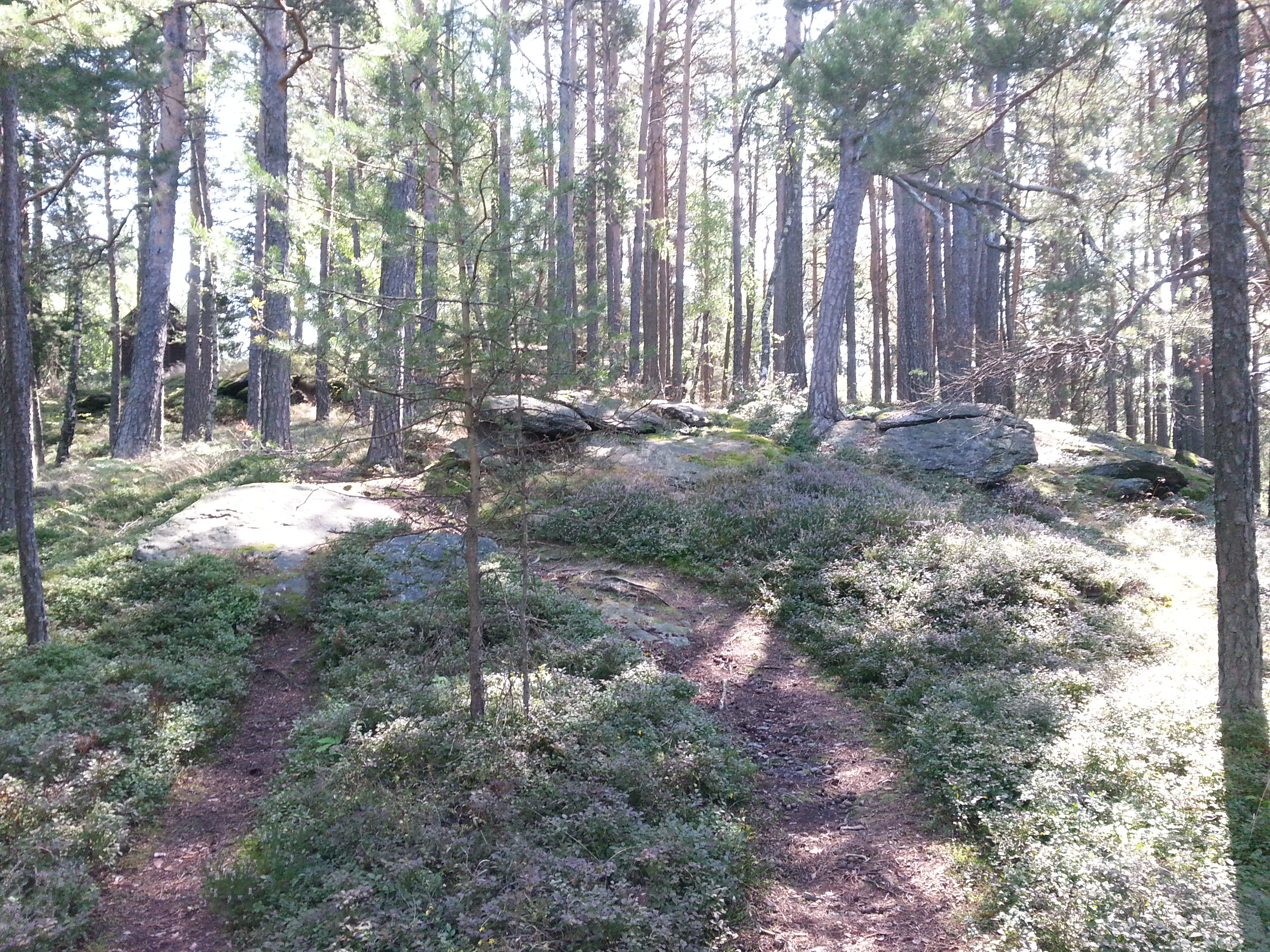 Neolithic settlement on the top of the Wartenstein, Styria